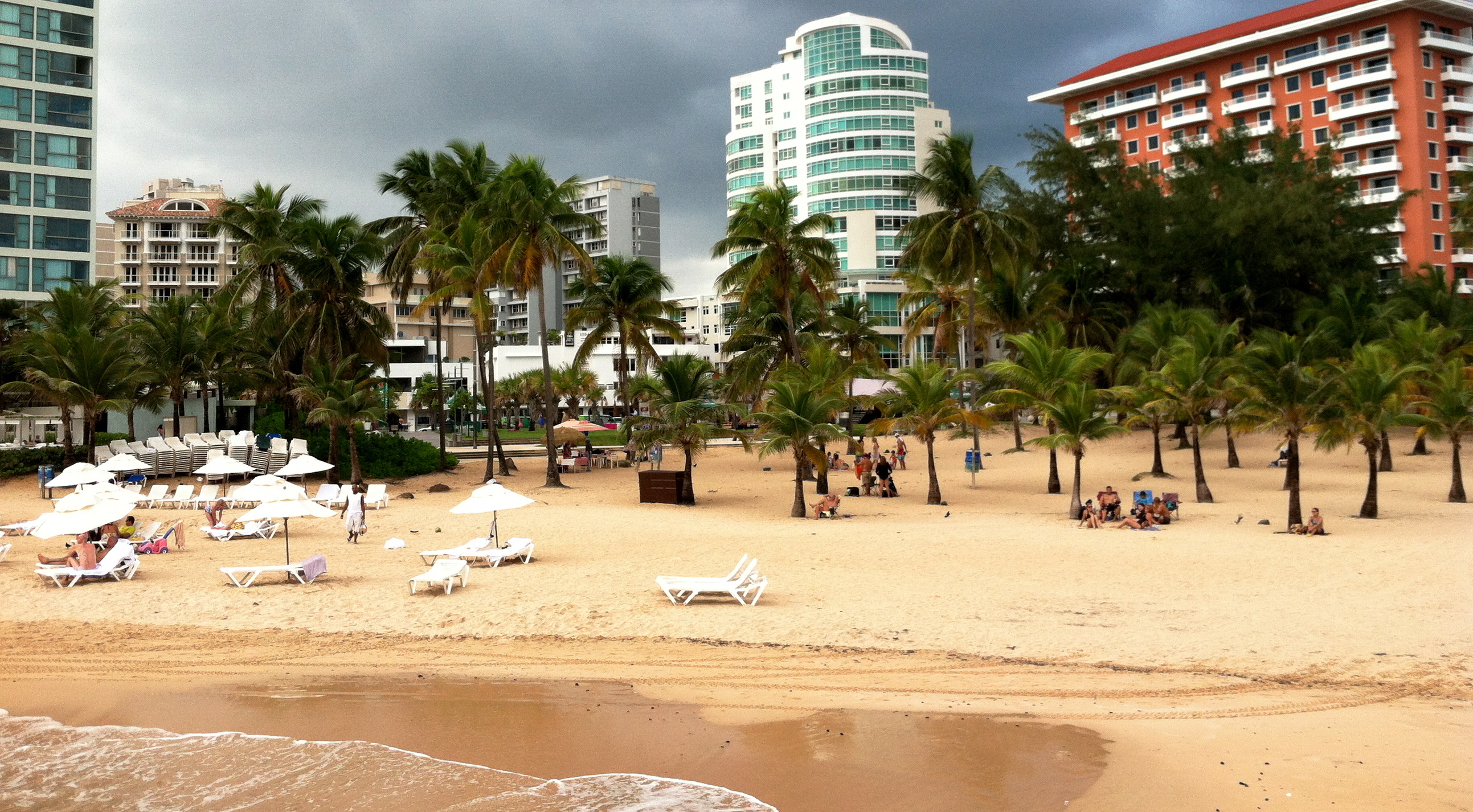 Condado Beach with “Window to the Sea” (Ventana al Mar) Park in the background in San Juan, Puerto Rico. Non-historic tower associated with the Condado Vanderbilt Hotel in the background right.